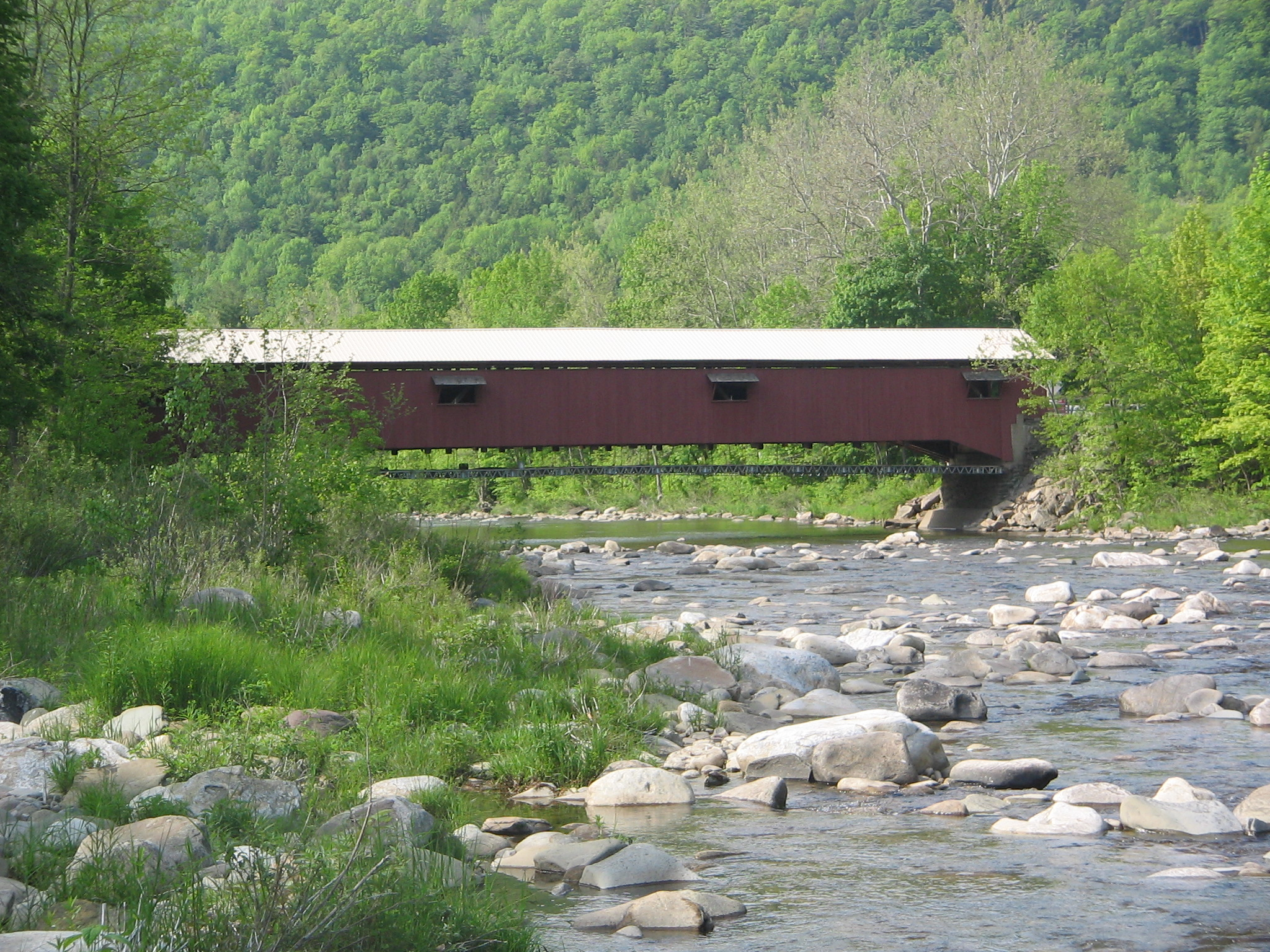 1850 Covered Bridge over Loyalsock Creek in Forksville, Sullivan County, Pennsylvania, USA. Scaffolding beneath the bridge is apparently for painting the bridge, which took place in the summer of 2006.